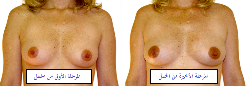 Breast changes during pregnancy